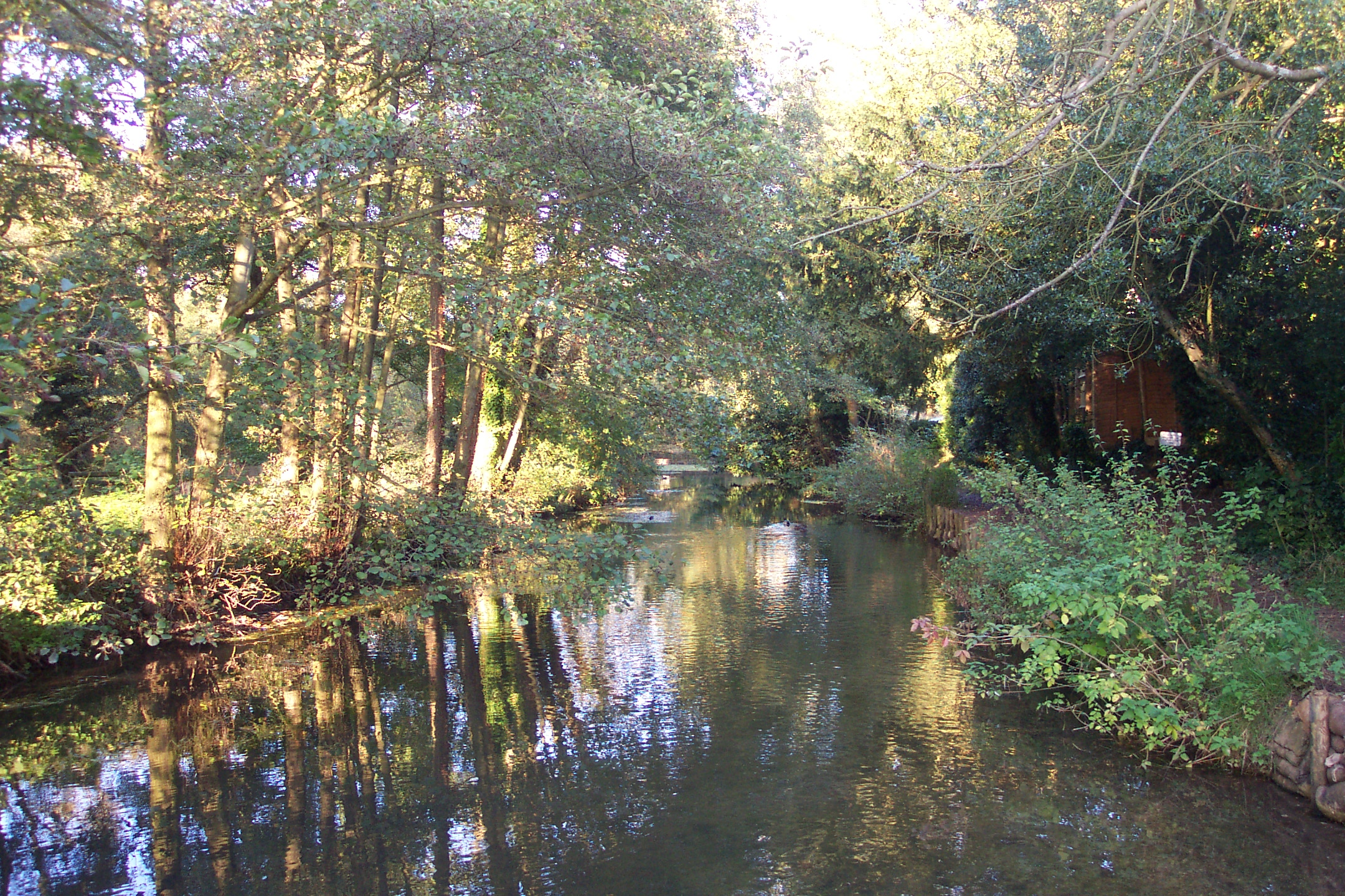 The River Pang near Bradfield College in Berkshire, England. For more information, see the Wikipedia article River Pang.